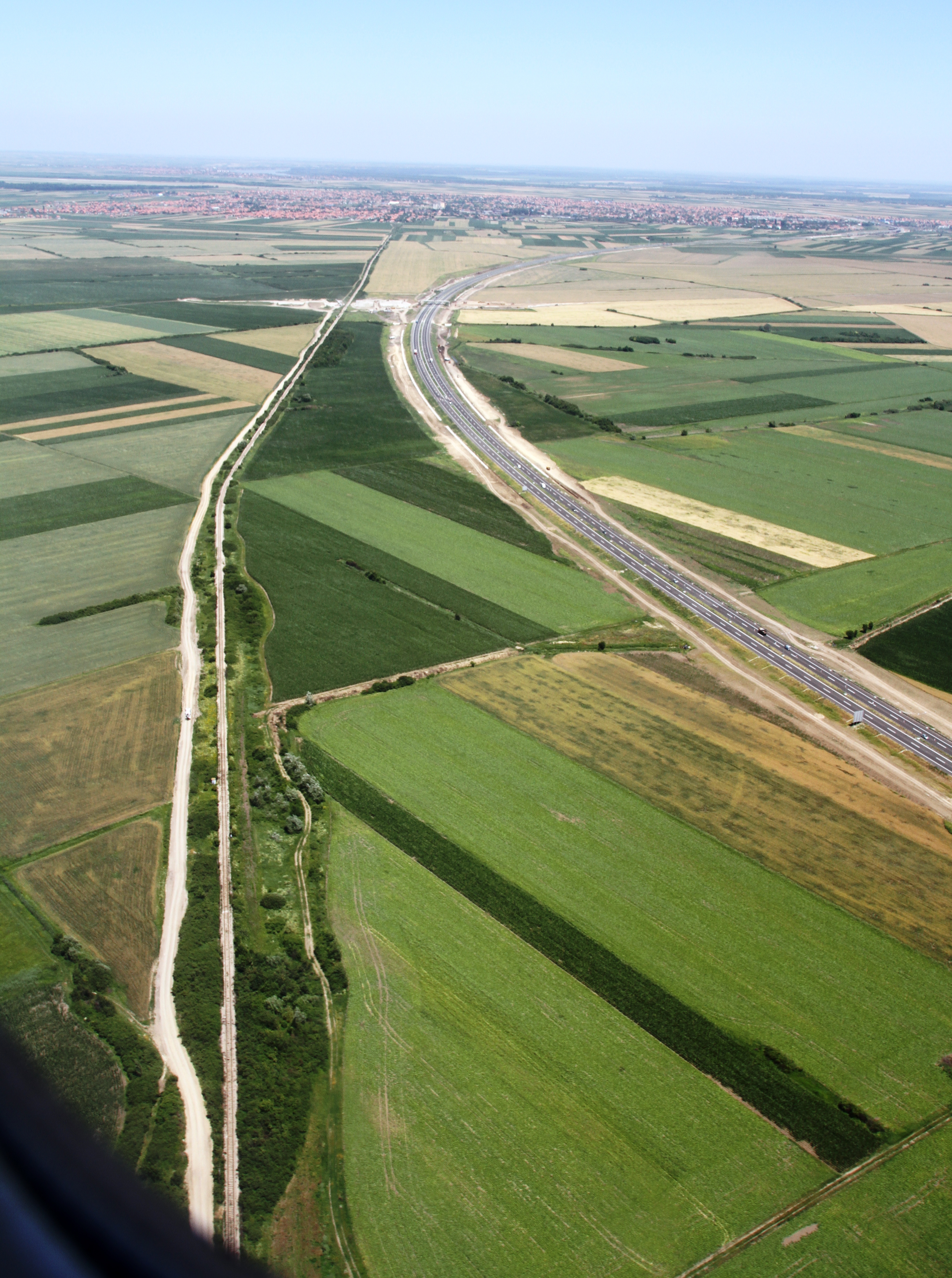 E75 highway in western Beograd municipality - close to the Nikola Tesla Airport.